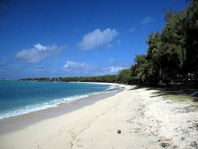 Pointe Cotton, Rodrigues, Mauritius.